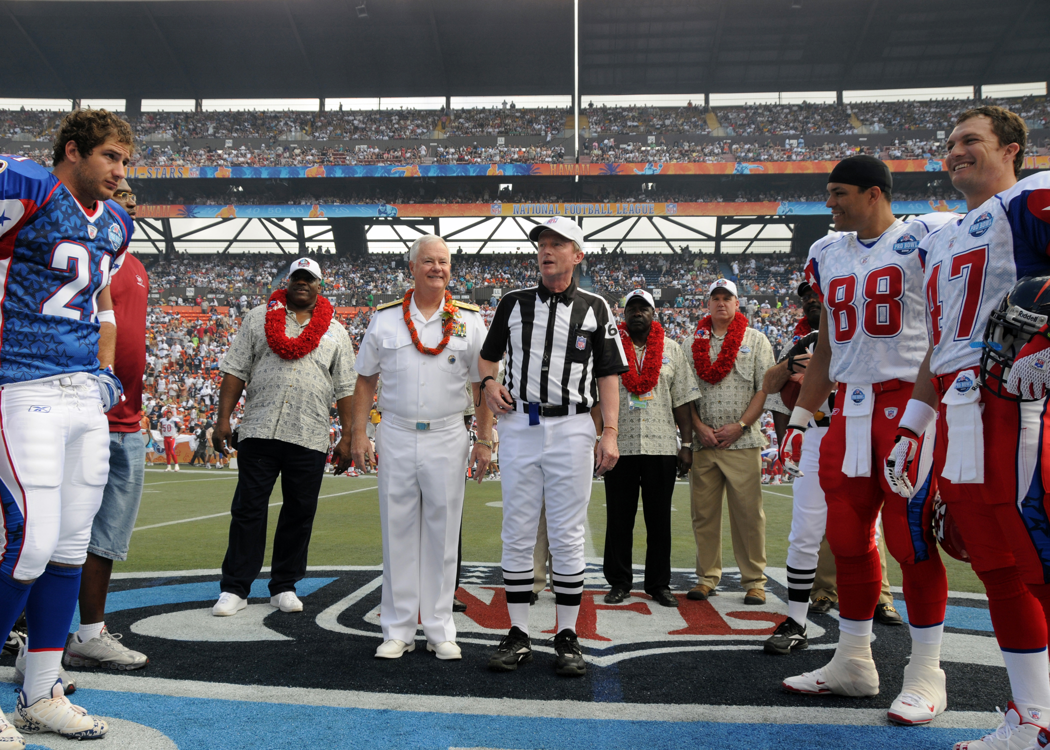 Adm. Timothy J. Keating, commander of U.S. Pacific Command, joins the 2008 NFL Pro Bowl players and officials at mid-field for the coin toss during the 2008 Pro Bowl game at Aloha Stadium.